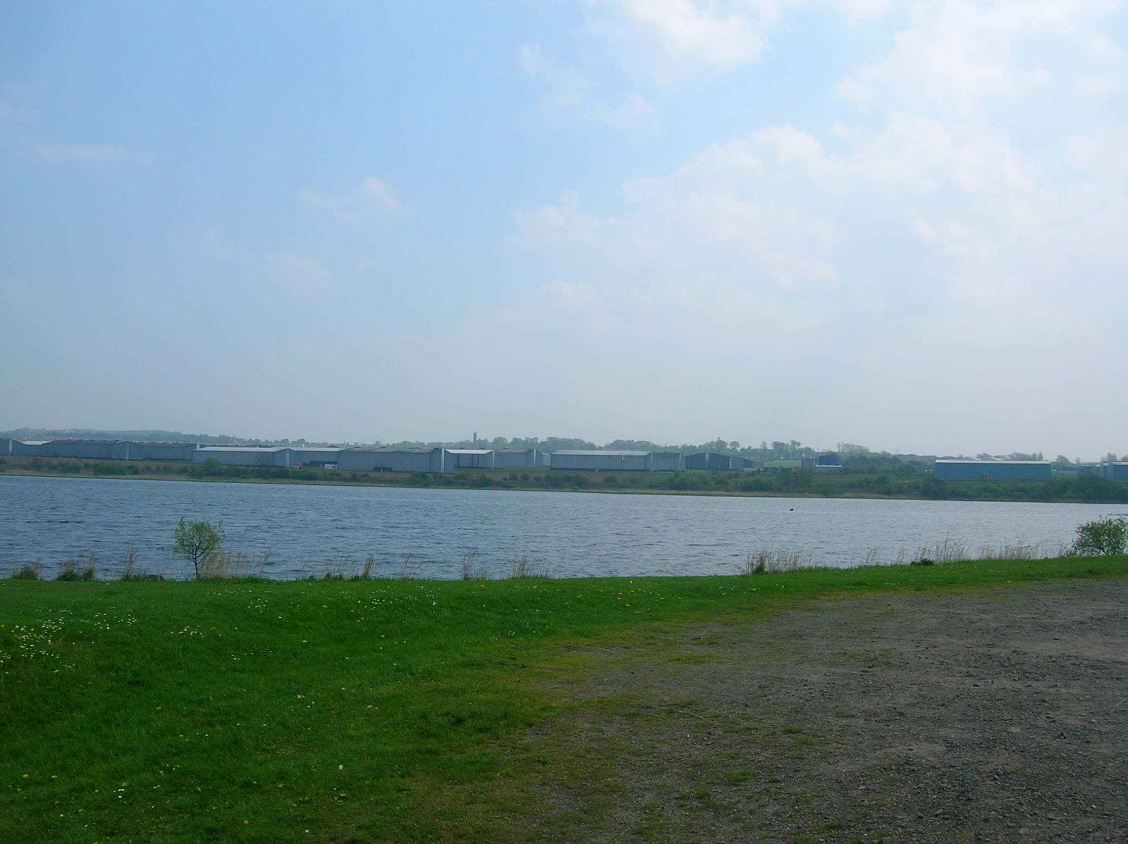 Kilbirnie loch with the whisky bonds and mainline railway.